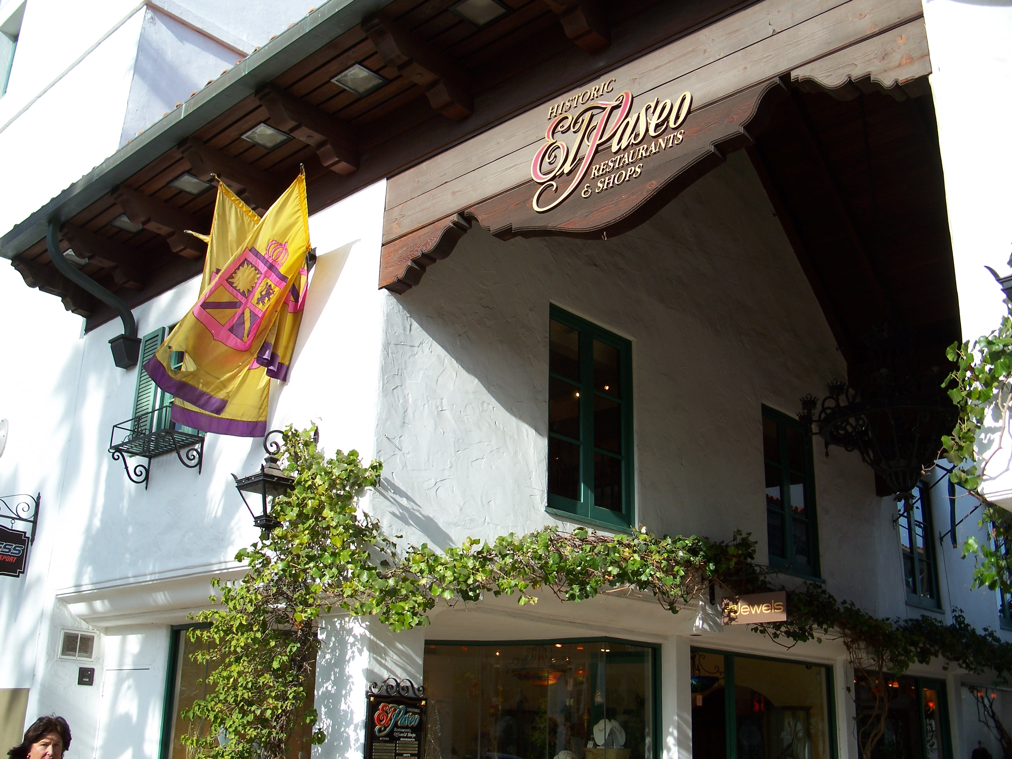 El Paseo. 808 – 818 State Street. Santa Barbara, California, USA